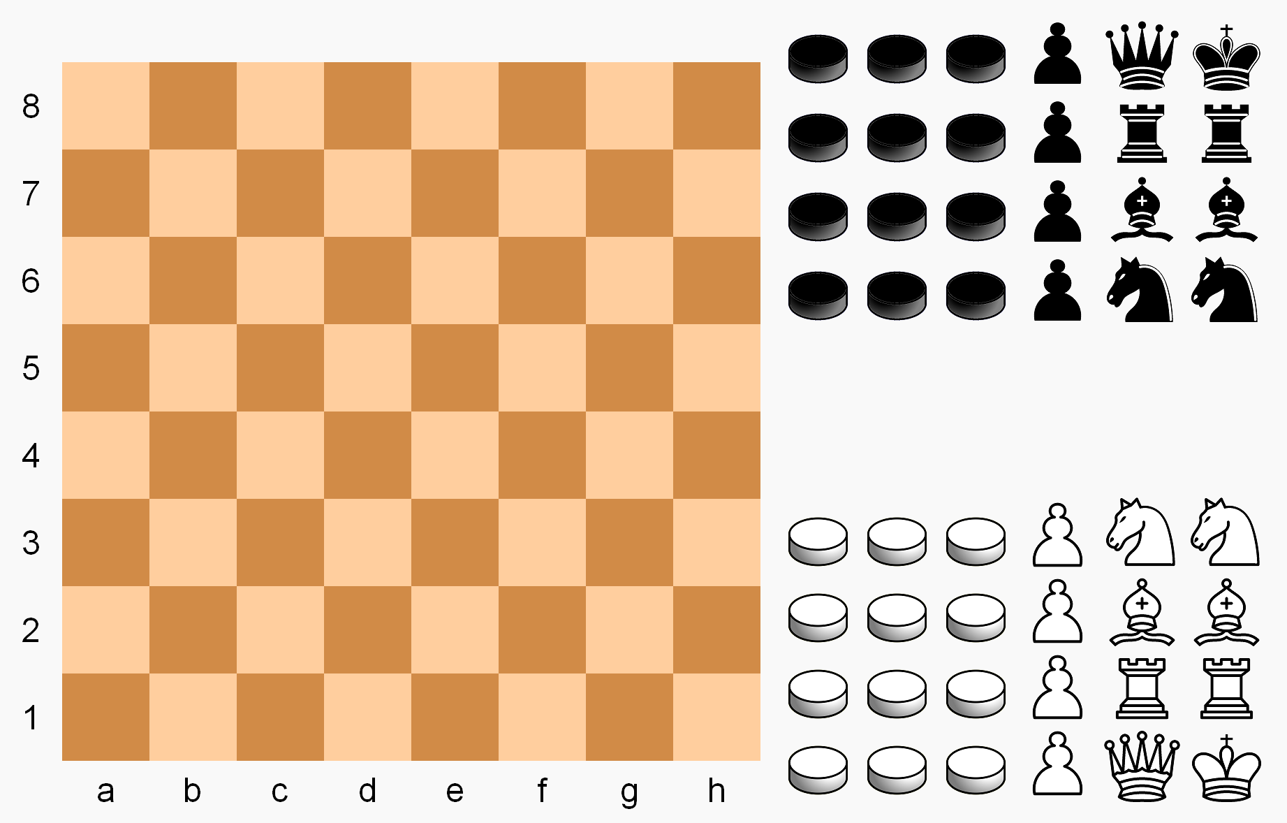 Using ProjChess colors, checker icons of User:Stellmach (svg'd by User:Stannered) recolored, and the great chess icons fashioned by David Benbennick (User:Dbenbenn); all done in MSPAINT.